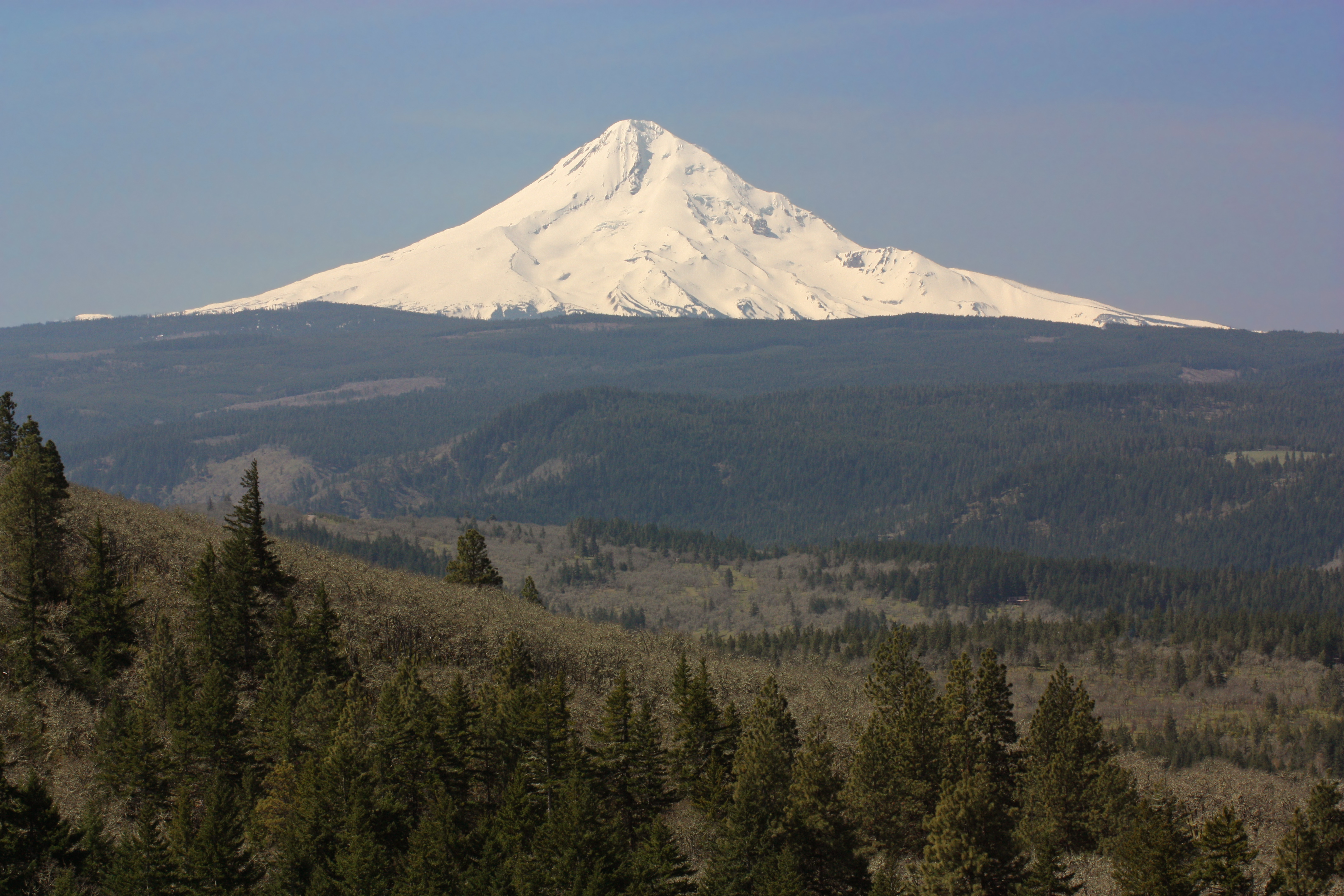 Mount Hood 11,249 ft (3,429 m, skyline) Viewpoint location: McCall Point Trail, Tom McCall Preserve Viewpoint elevation: 527 meter (1730 ft) View direction: 223° Location source: Garmin GPSmap 60CSx Location Datum: WGS84